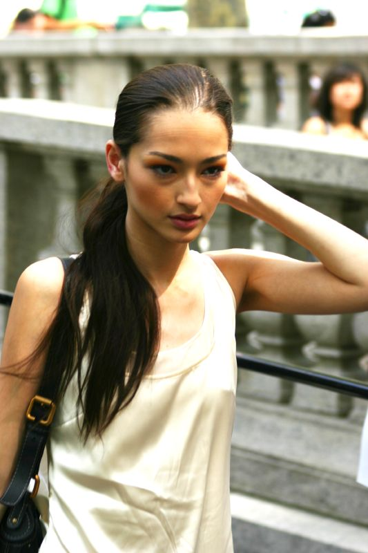 Supermodel Bruna Tenório exits the Bryant Park tents during the Mercedes-Benz Fashion Week show on September 9, 2007.